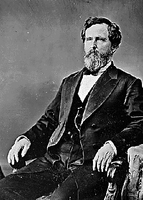 James B. Howell, US Senator from Iowa